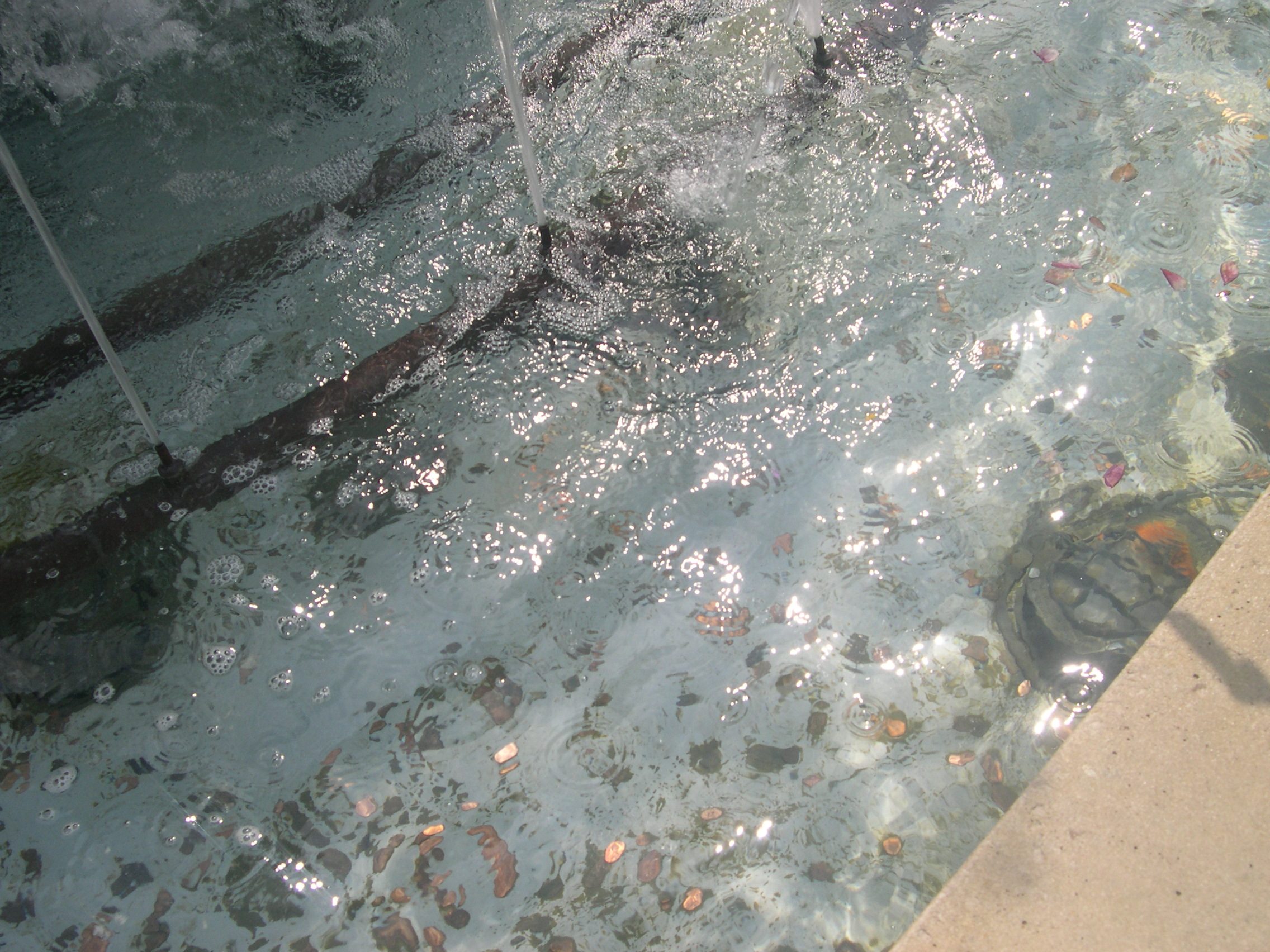 Coins in a pond at Skokie Illinois. Throwing a coin into a pond is supposed to make your wishes come true.